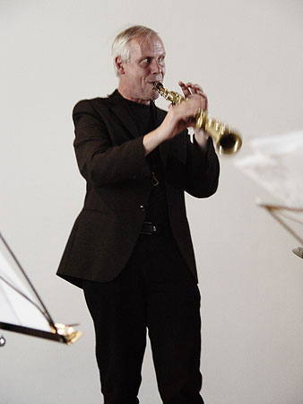 Simon Spang-Hanssen